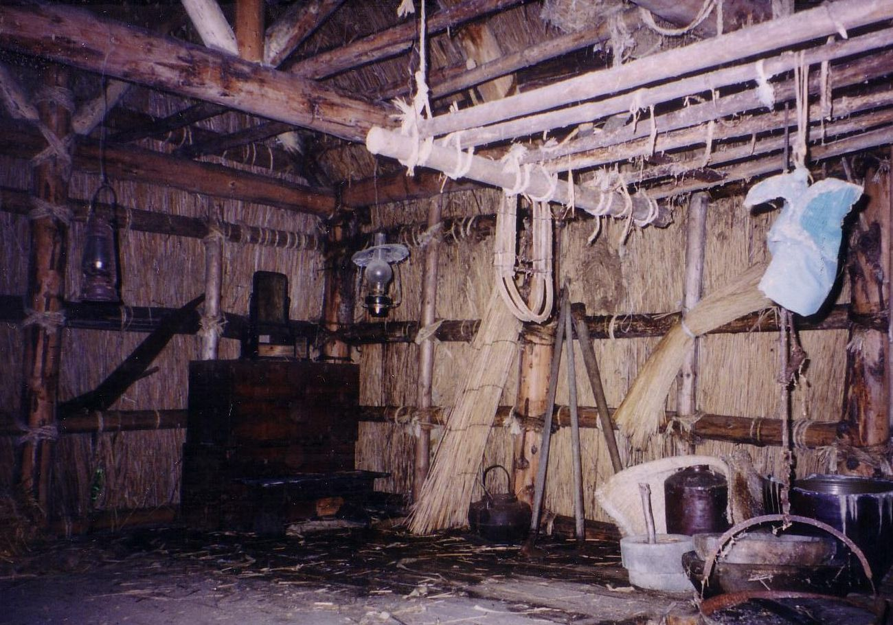 A reproduction of the Ōta family's house: see Sankebetsu brown bear incident.